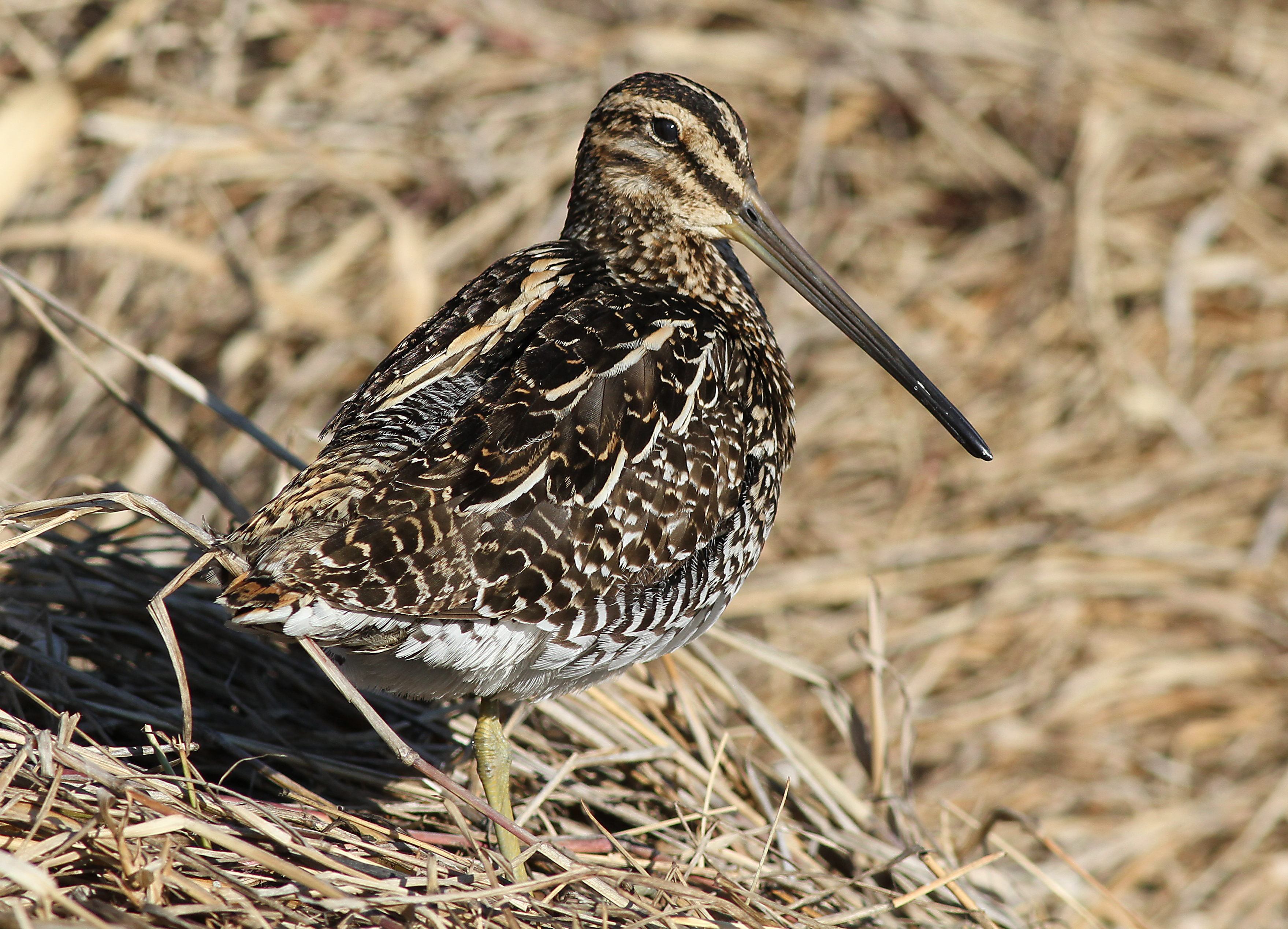 African Snipe, Gallinago nigripennis at Marievale Nature Reserve, Gauteng,South Africa